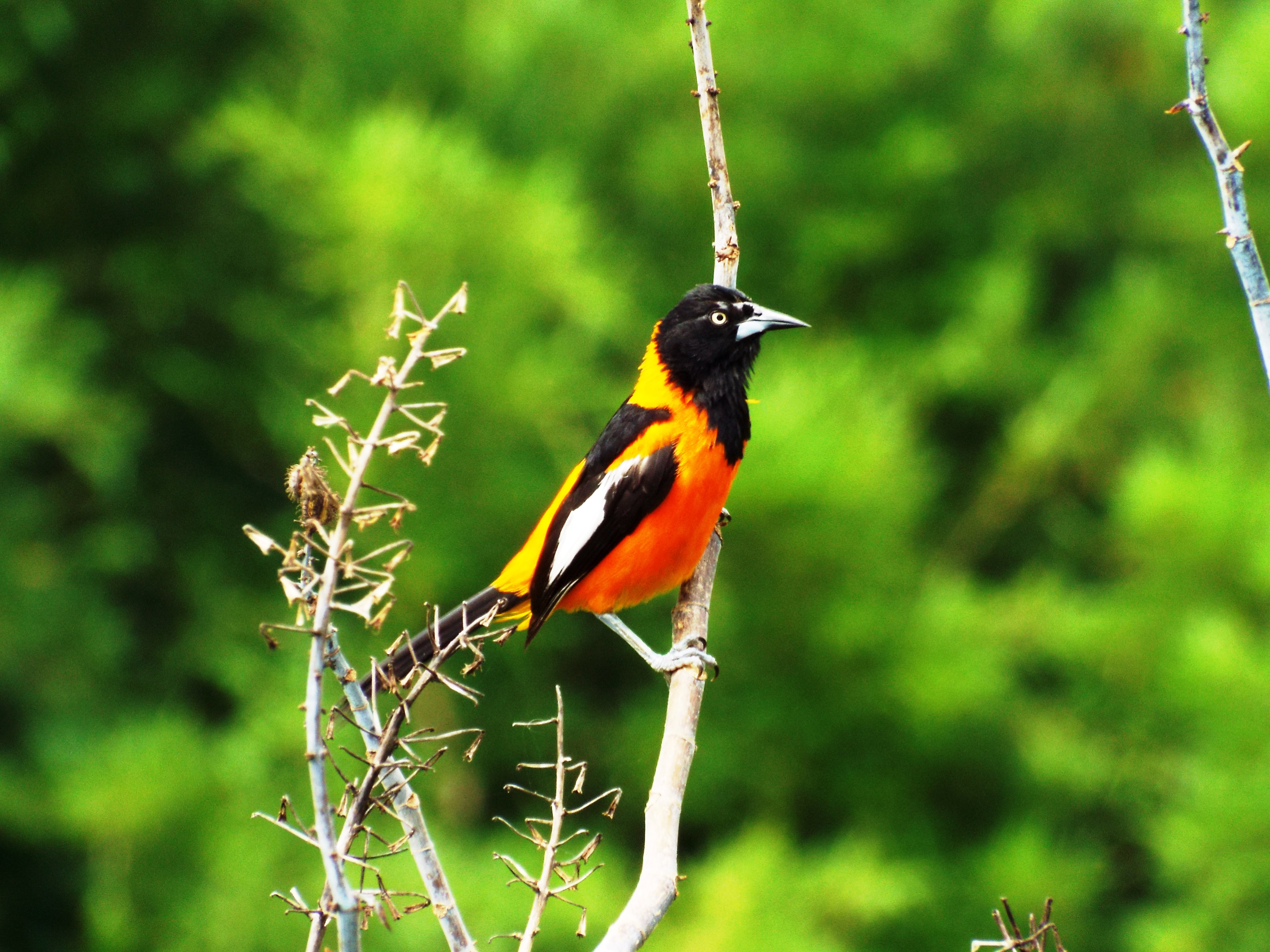 Ave comum em ambiente de bordas.